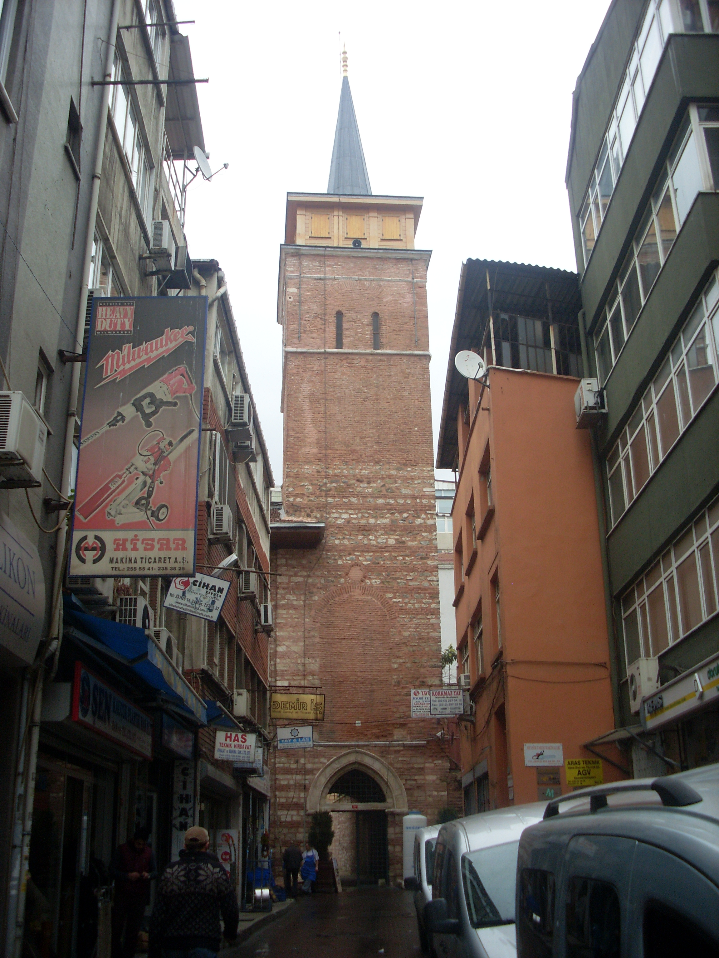 İstanbul - Arap Mosque r1 - Mart 2013